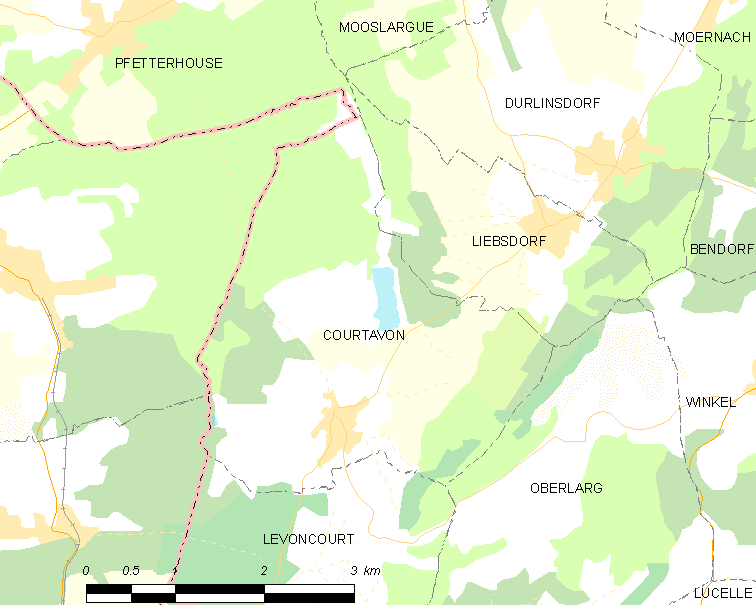 Map of French municipality